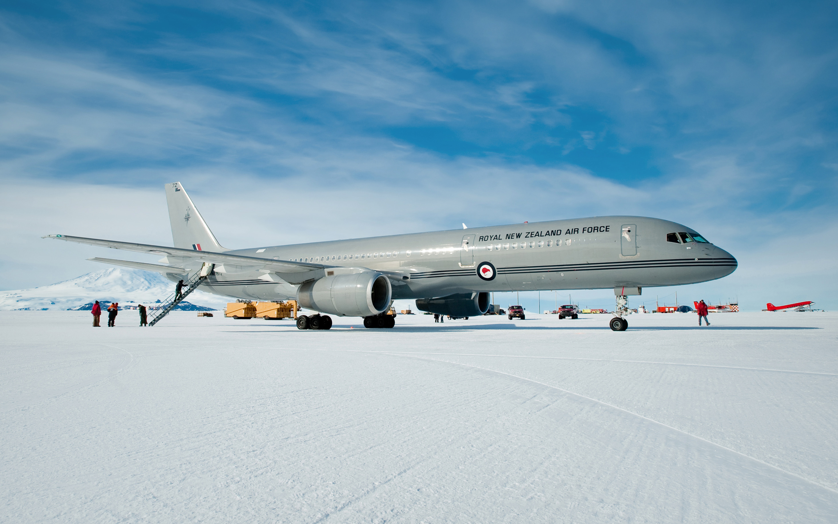 RNZAF Boeing lands at Pegasus Airfield on the Ross Ice Shelf during its maiden flight to Antarctica. WN 10-0063-045 Crown Copyright 2011, NZ Defence Force – Some Rights Reserved.